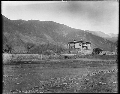 Shatra House in Shatra O village, where Bell stayed en route to Ganden monastery in 1921